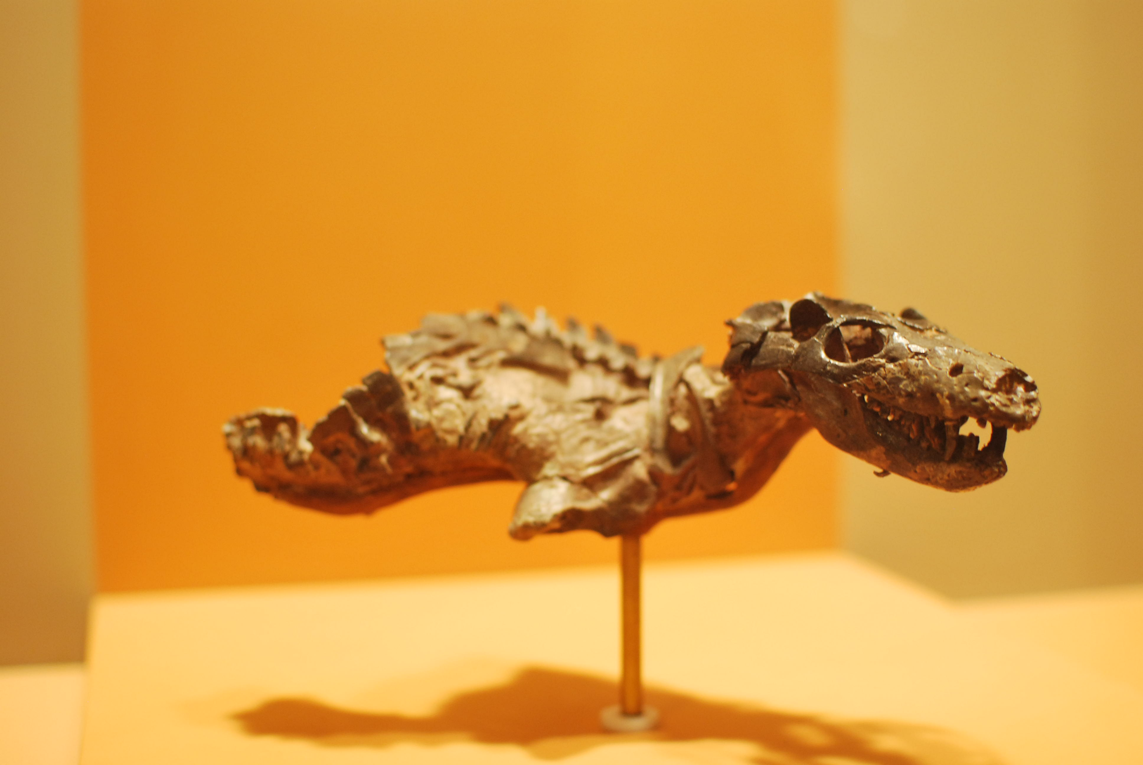 From the early Triassic (230-225 million years ago)